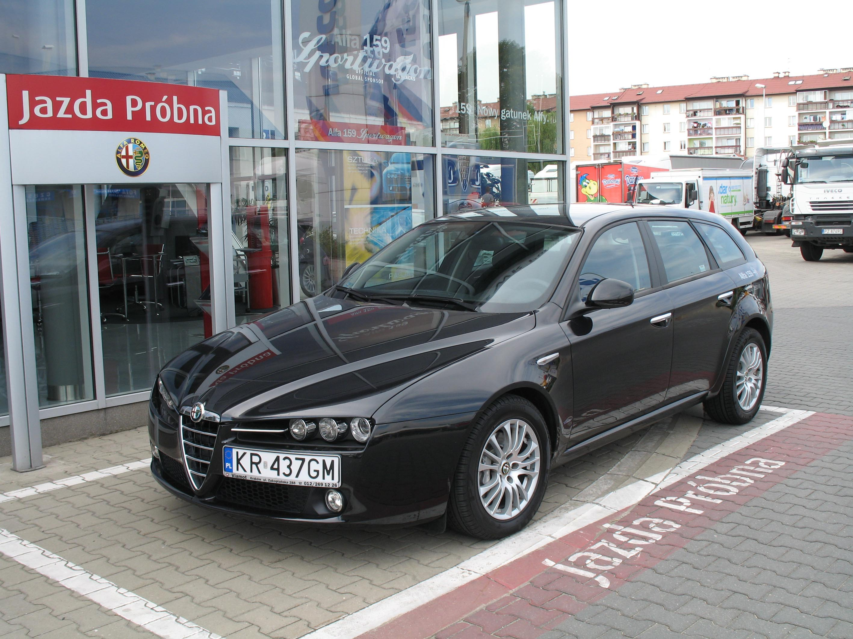 Alfa Romeo 159 Sportwagon 1.9 JTD in Kraków, Poland.